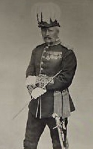 Photograph of General Sir John Davis